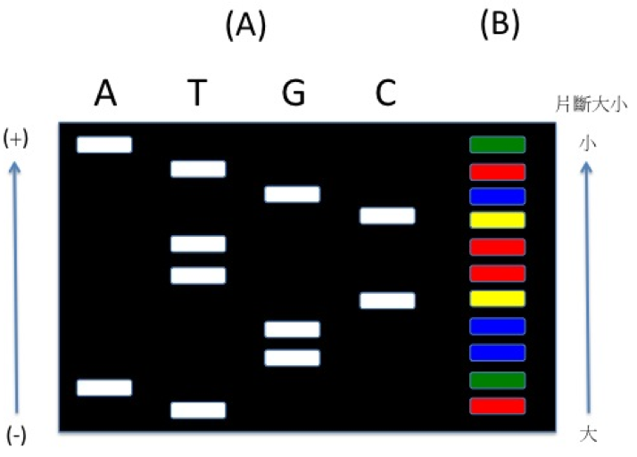 Simulated image of gel electrophoresis of Sanger sequencing